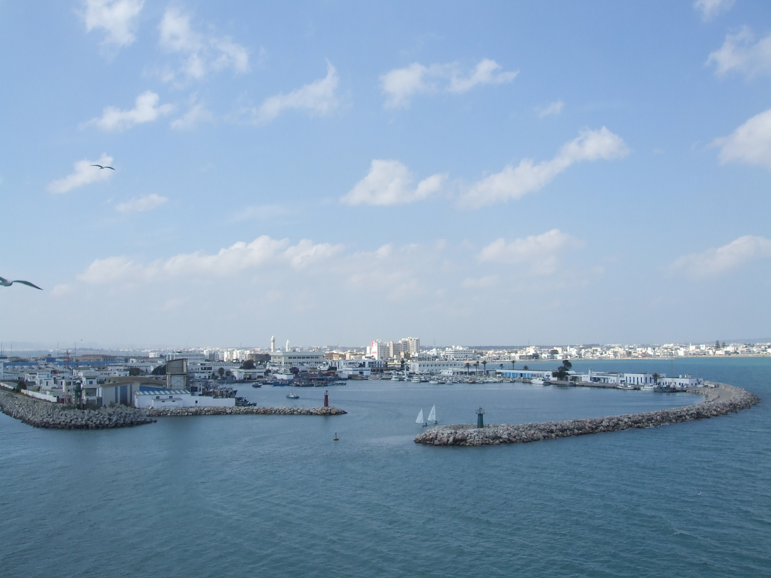 La Goulette Port, from the sea